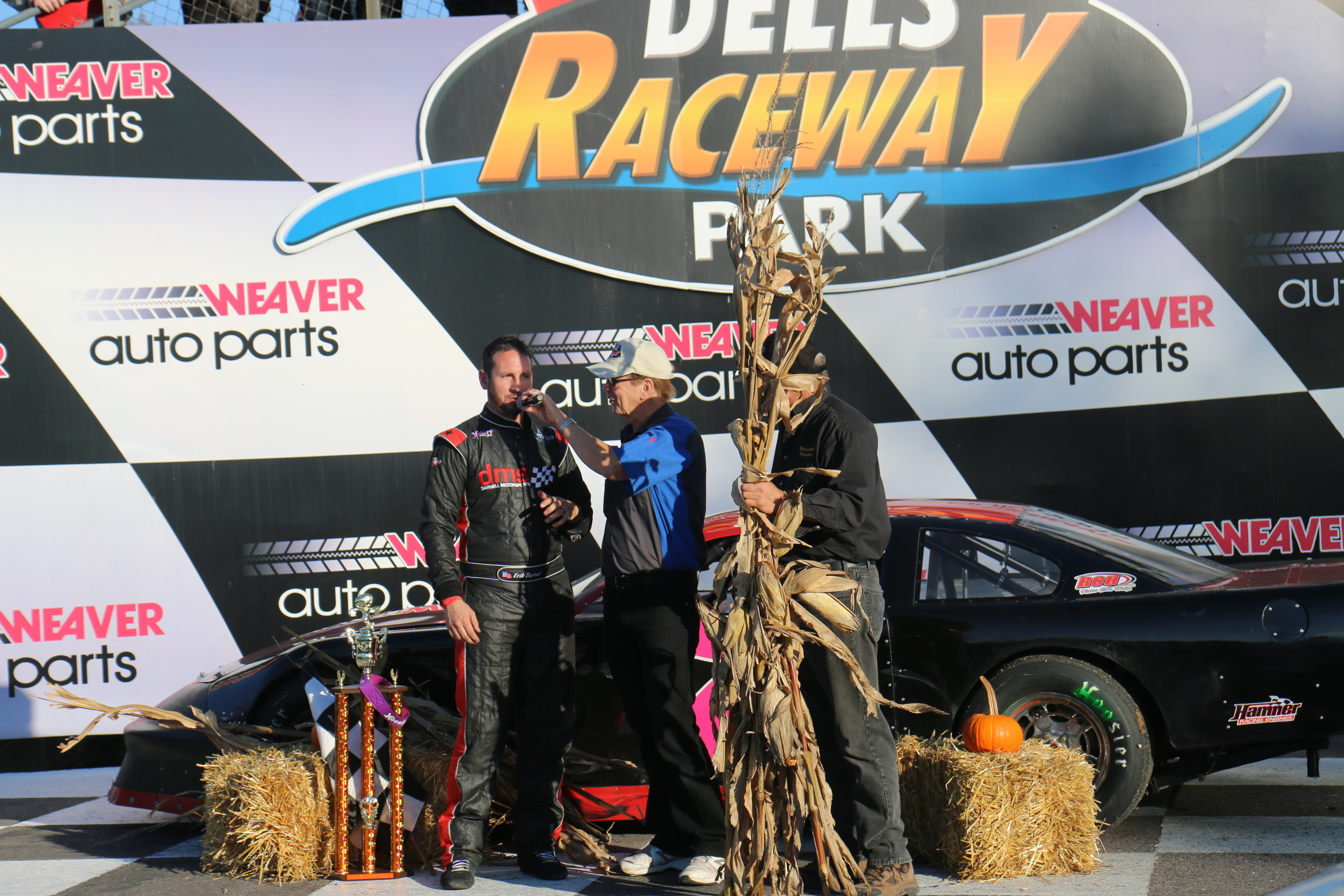 Interviewing Super Late Model driver Erik Darnell in victory lane at Dells Raceway Park after winning the Scarecrow 40 race.